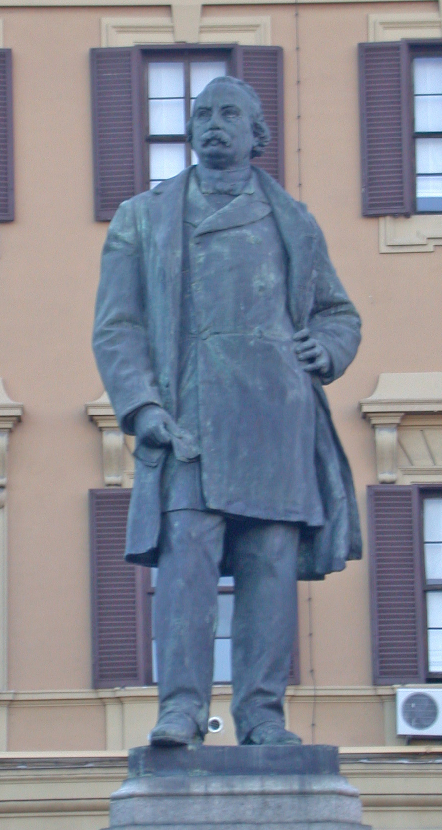 Silvio Spaventa, italian politician. Statue in front of Ministero delle Finanze, in Rome. Personal photo (august 2005) by MM in it.wiki